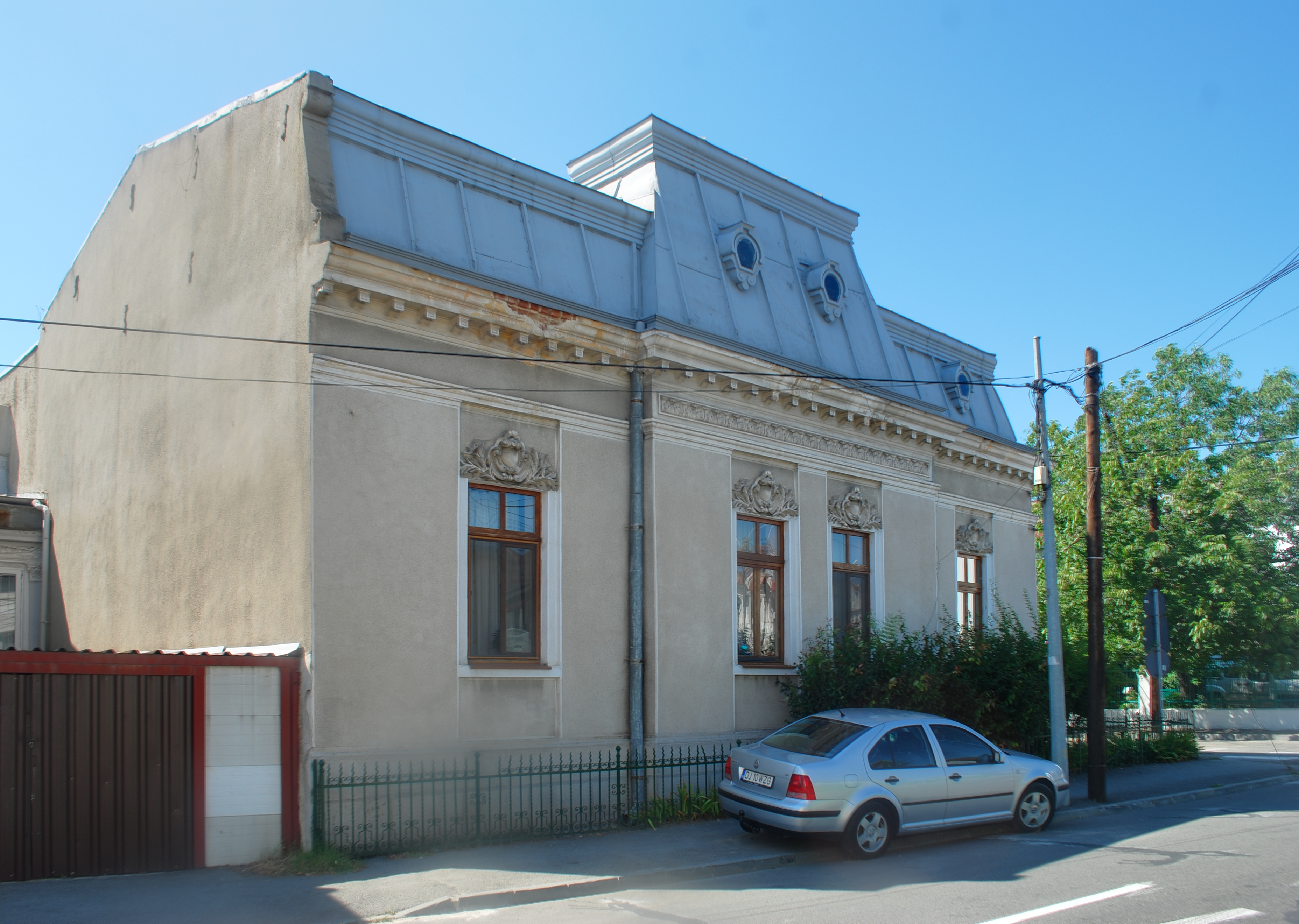 House in 6 Nestor Vornicescu street, Craiova, Romania